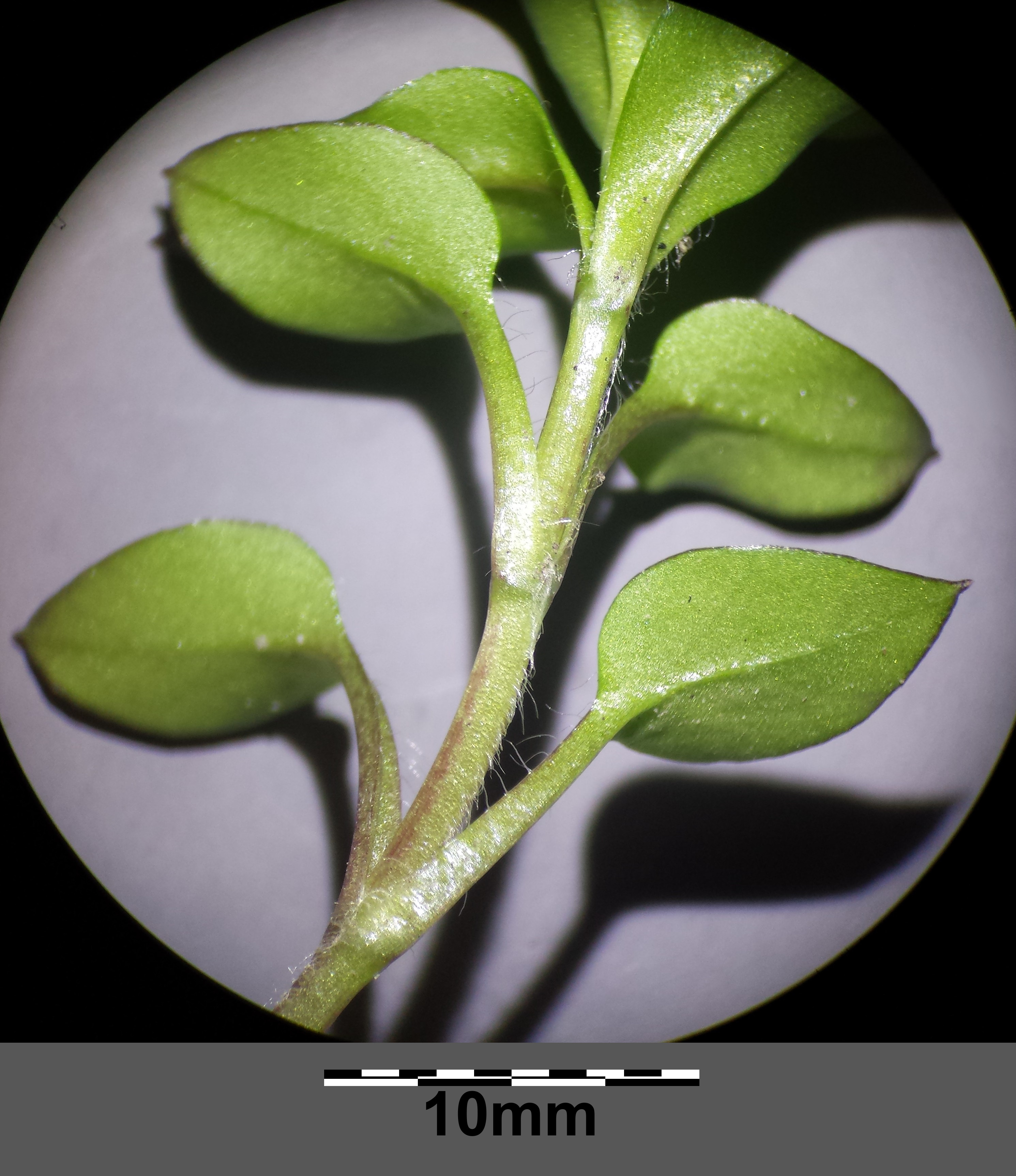 Stem with leaves Taxonym: Stellaria ruderalis ss Lepší et al. Stellaria ruderalis, a new species in the Stellaria media group from central Europe, in Preslia 91, 2019 Location: Sinawastingasse, Vienna-Floridsdorf - ca. 160 m a.s.l. Habitat: ruderal lawn